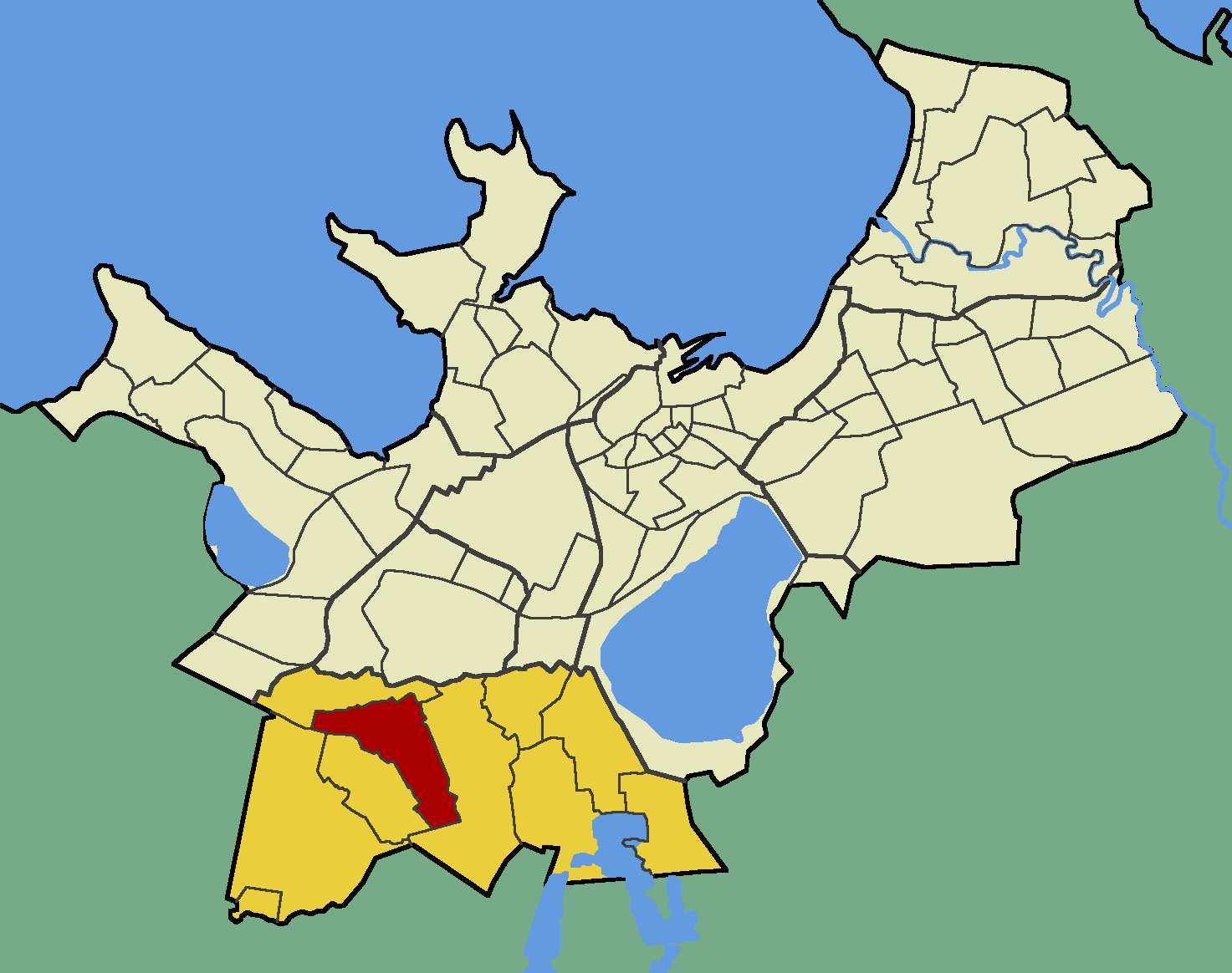 Map of Tallinn (Estonia) with borders of the quarters, Nõmme district and Hiiu quarter emphasised